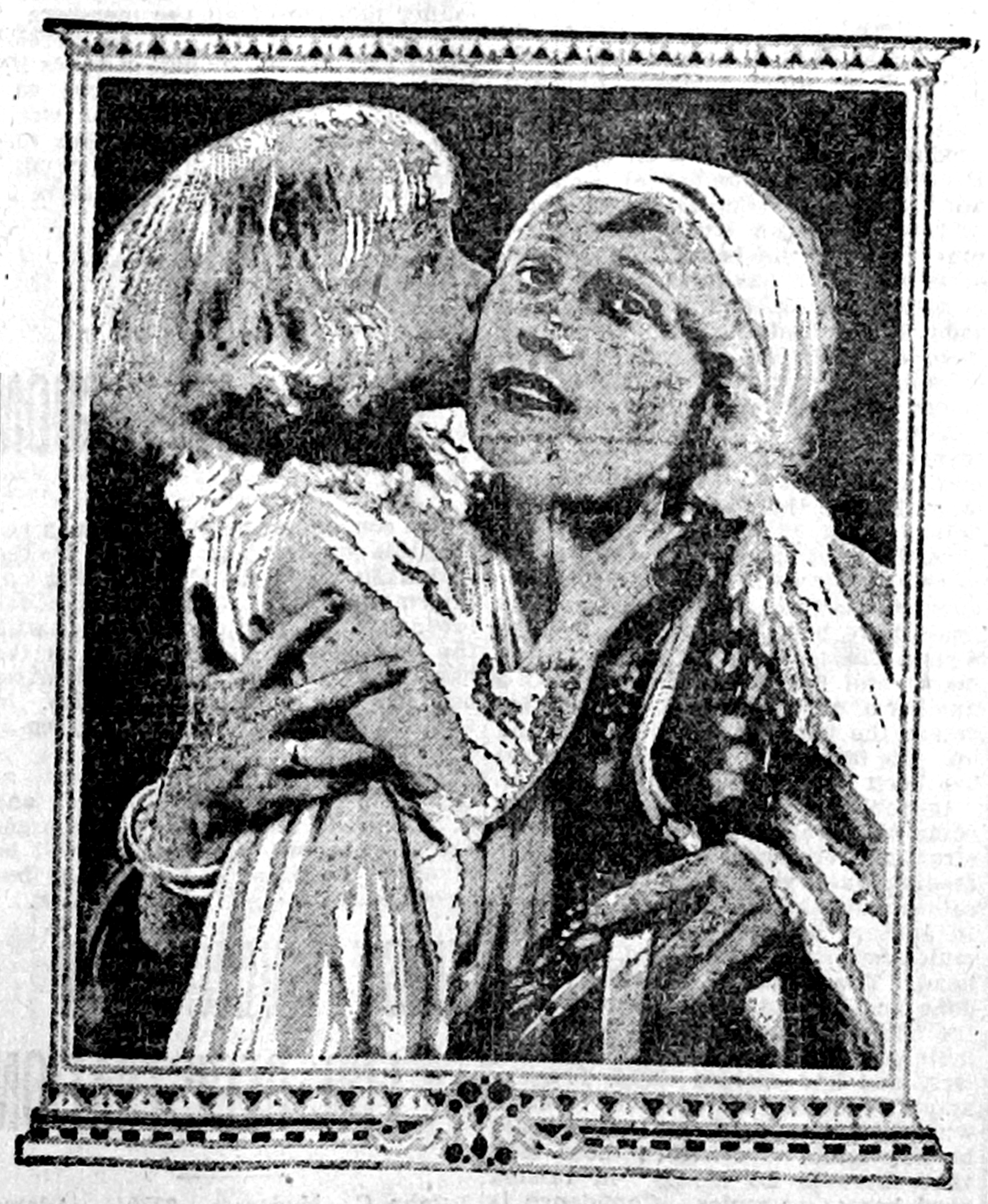 Elise Ferguson in a newspaper publicity image for A Doll's House (1918).